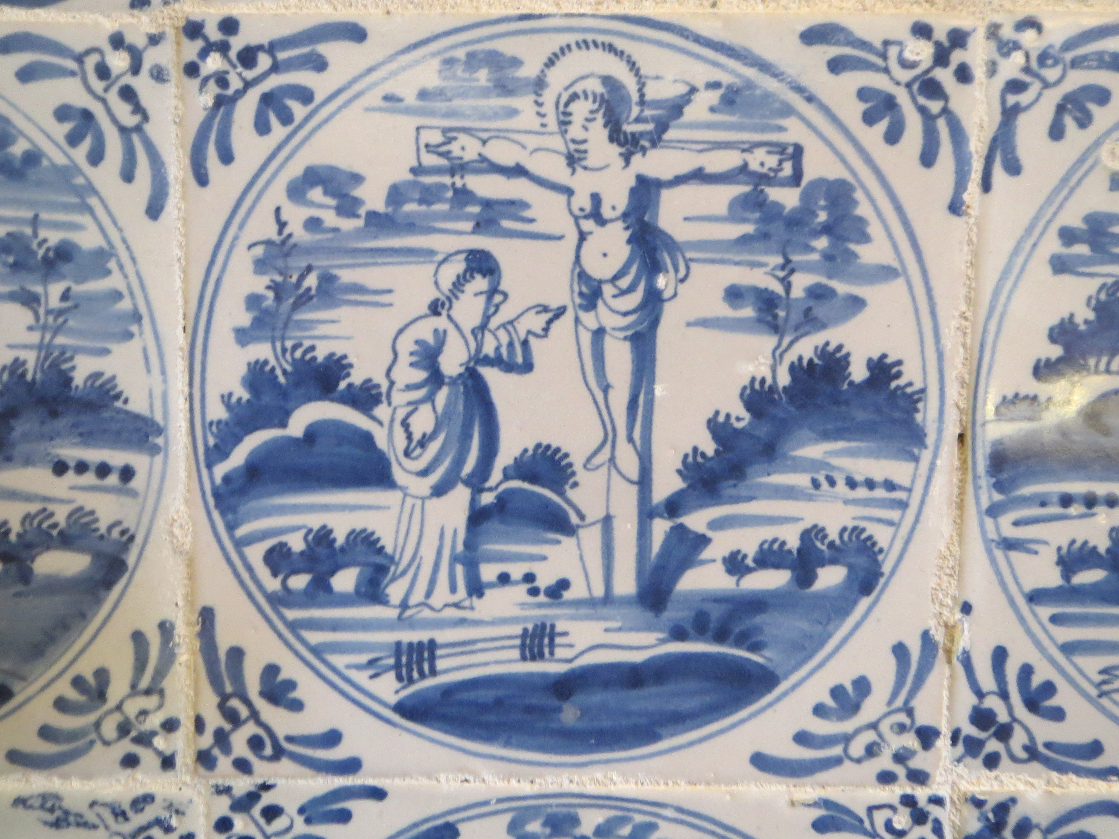 Schloss Bothmer interior